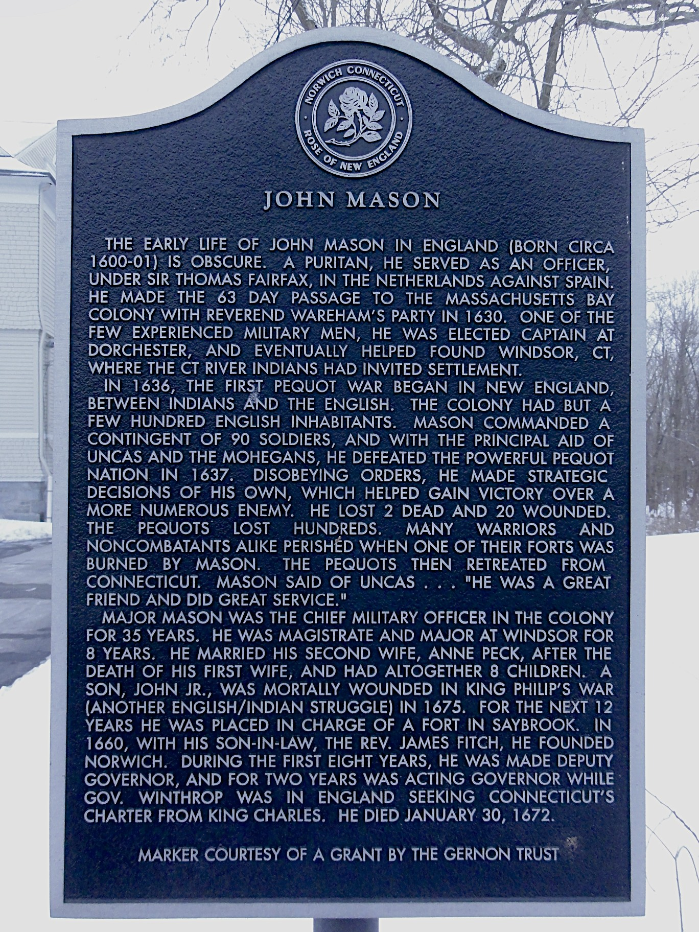 Founder John Mason historic plaque on the Norwichtown Green